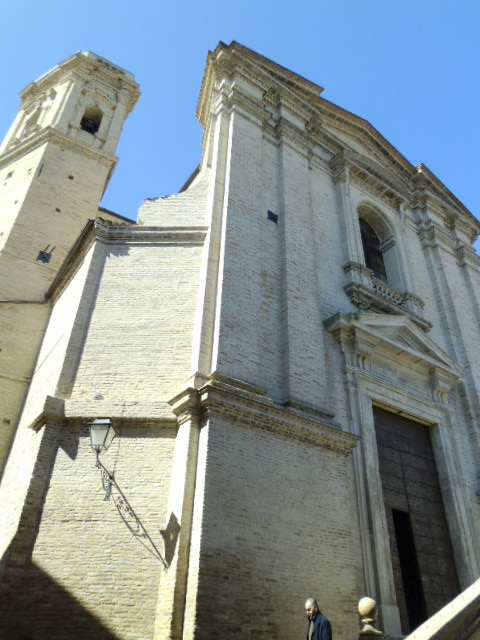 CHIESA DEL CARMINE